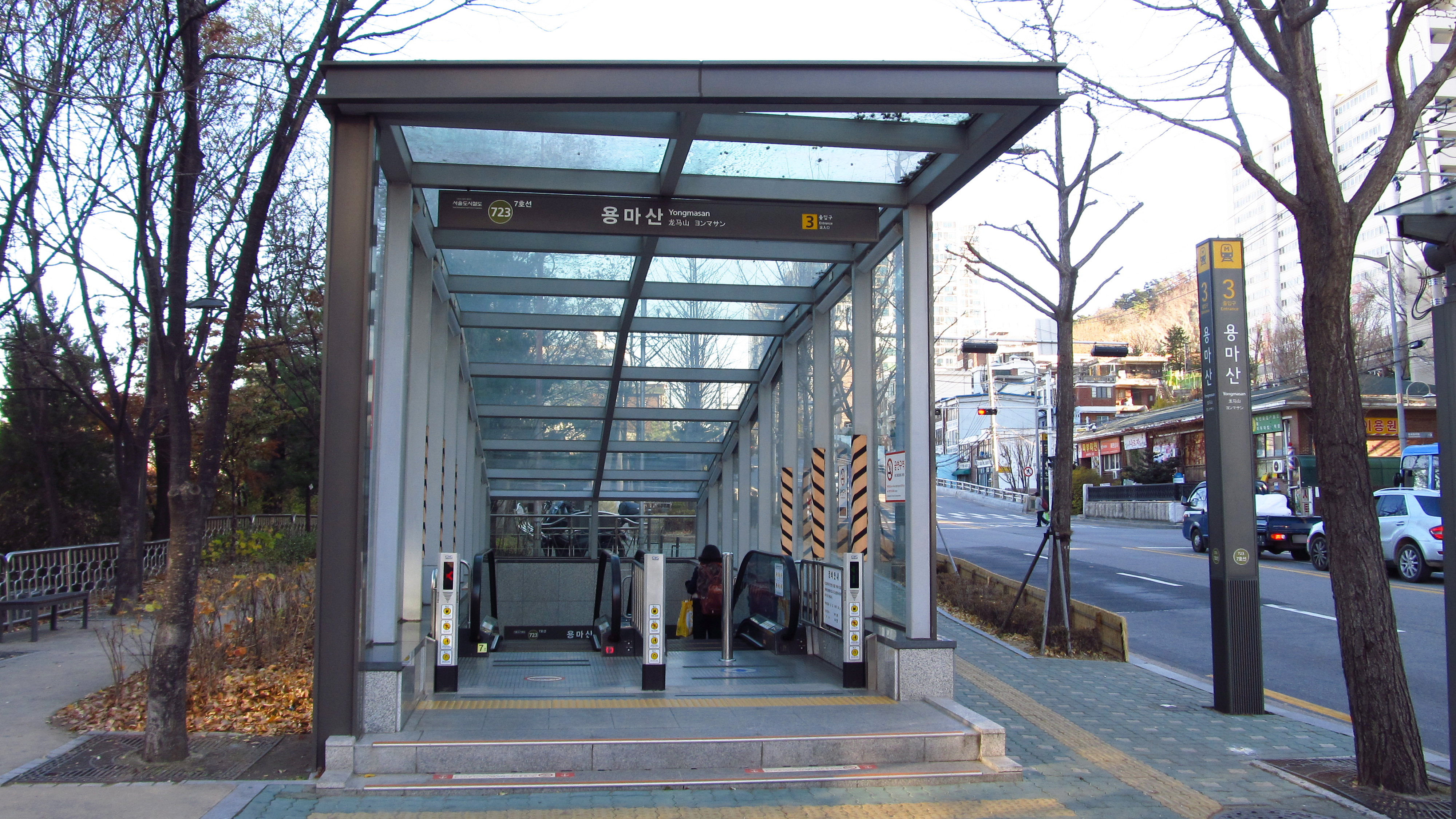 The no.3 entrance to Yongmasan Station on Seoul Subway Line 7 in Jungnang-gu, Seoul, Republic of Korea(South Korea)